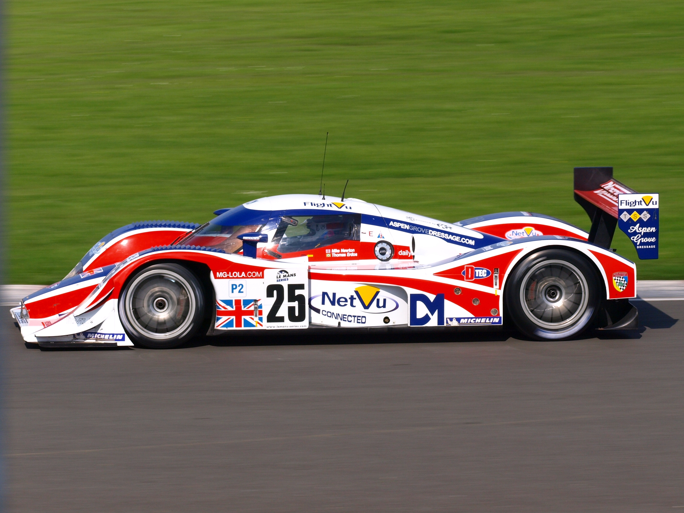 Mike Newton driving Ray Mallock Ltd's MG-Lola EX265C at the 2008 1000km of Silverstone.